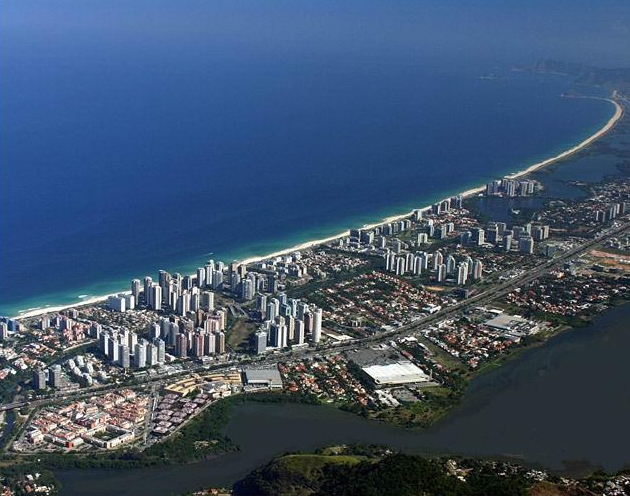 Vista da Barra